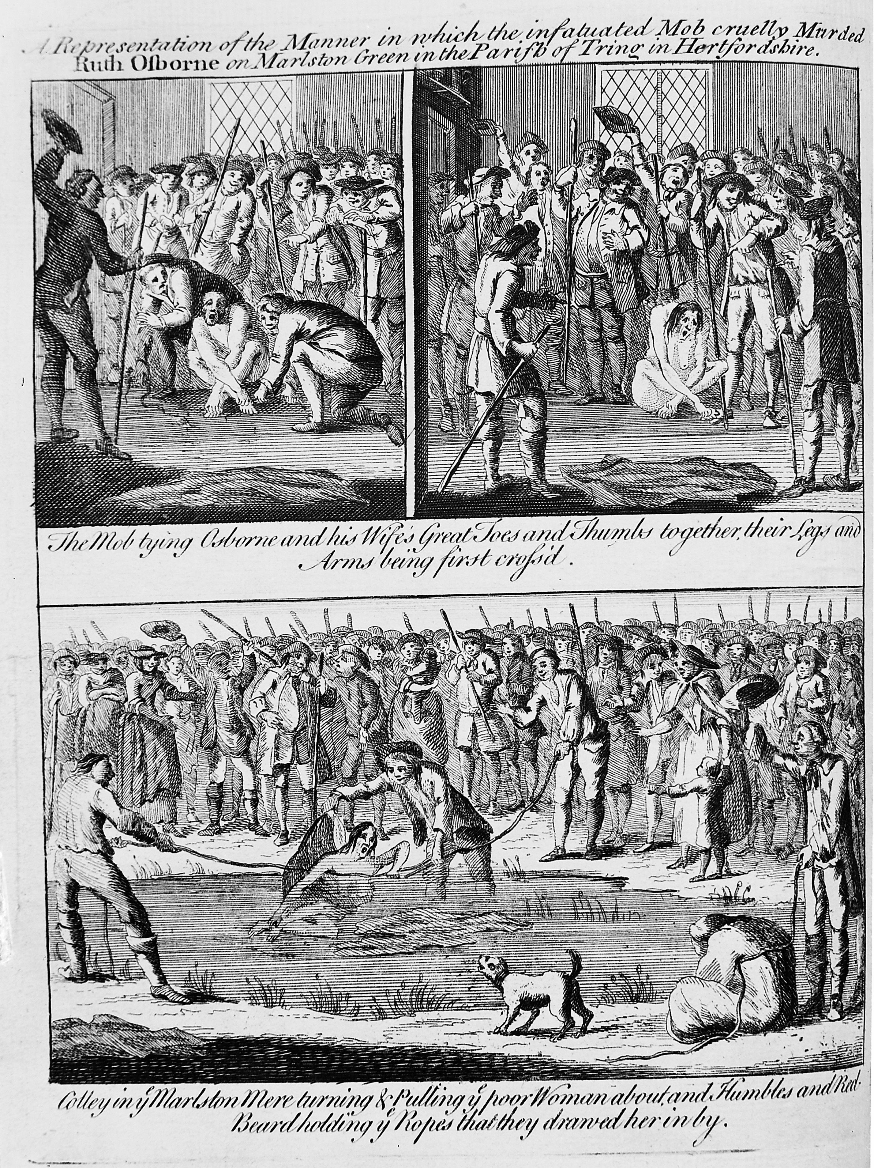 The drowning of an alleged witch (Ruth Osborne), with Thomas Colley as the incitor. Wellcome Images Keywords: Witchcraft